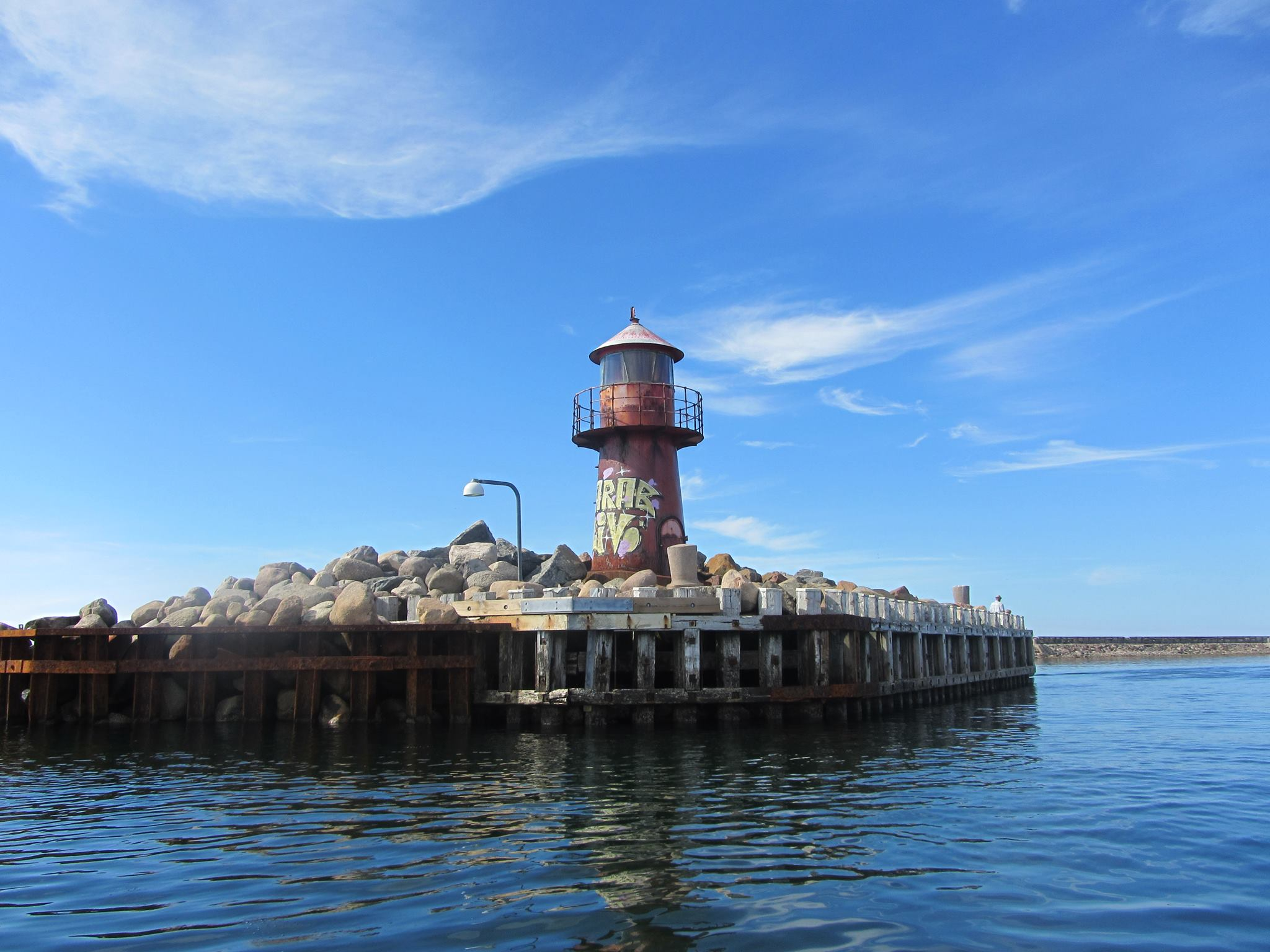 The former leading light at Anholt (1903-2013)